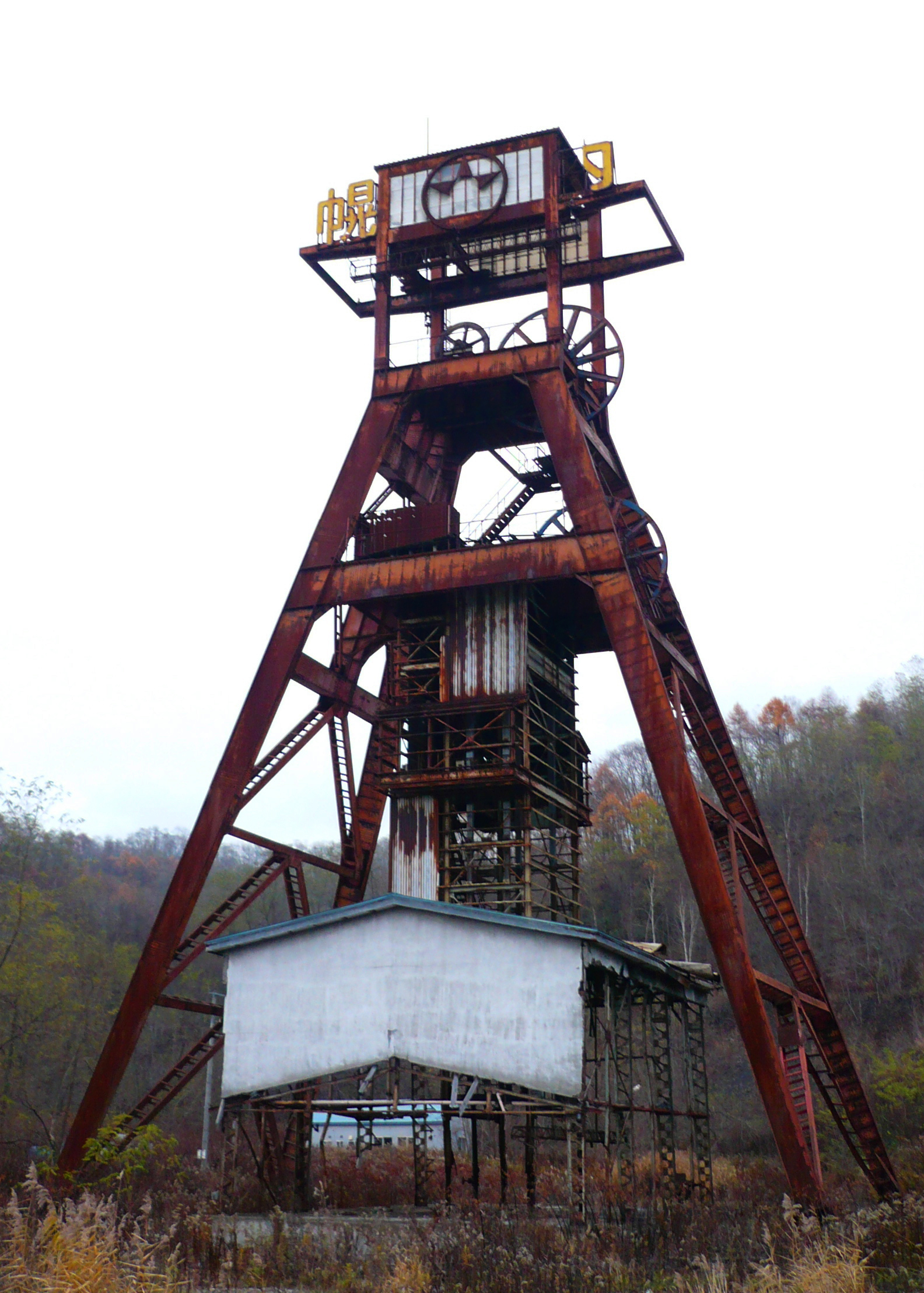 The Horonai-tatekō shaft of Hokutan Horonai Coal Mine